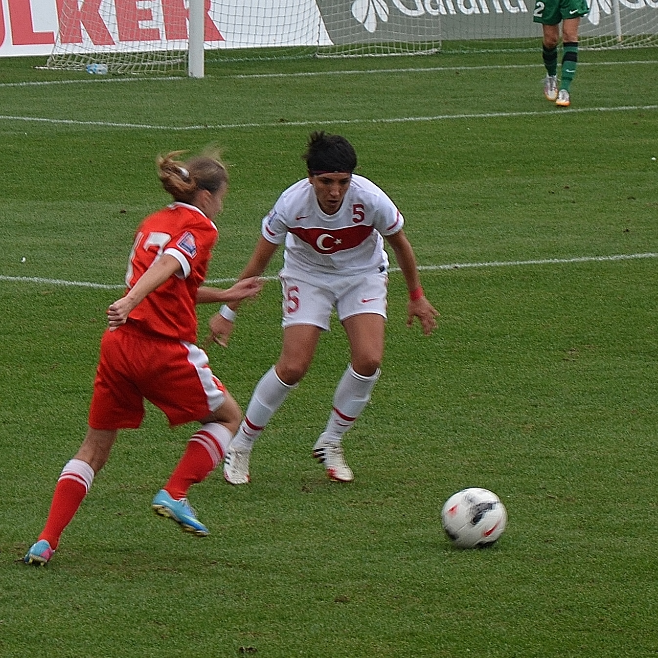 Çiğdem Belci for Turkey women's national football team in the home match against Belarus